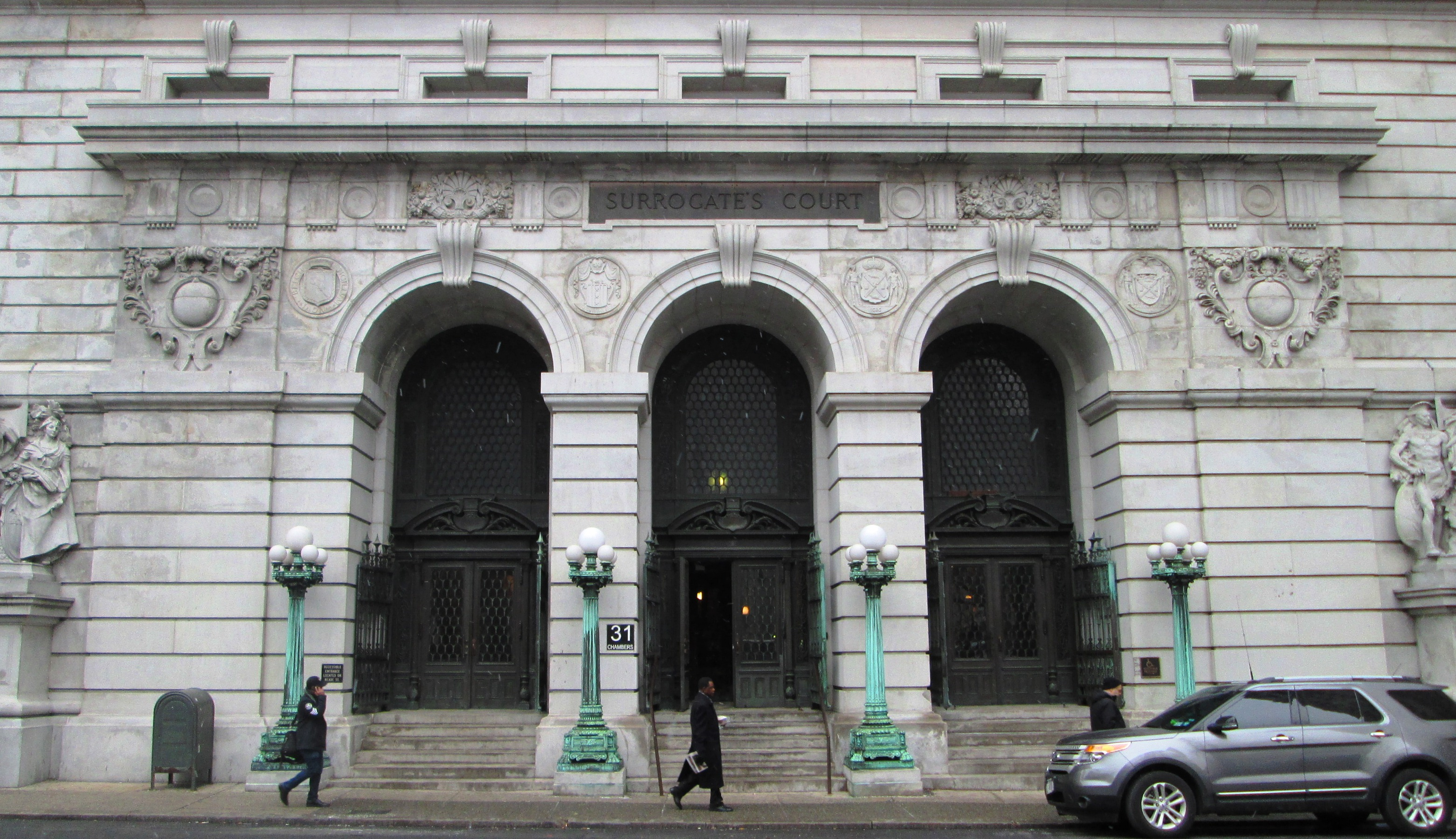 The Surrogate's Courthouse at 31 Chambers Street between Elk Street and Centre Street in the Civic Center district of Manhattan, New York City was built in 1899-1907 as the Hall of Records, and was designed by John R. Thomas in the Beaux-Arts style, and completed after his death by Horgan & Slattery. The exterior was designated a NYC landmark in 1966, and the interior in 1976. (Source: Guide to NYC Landmarks (4th ed.)) This image shows the entrance on Chambers Street.